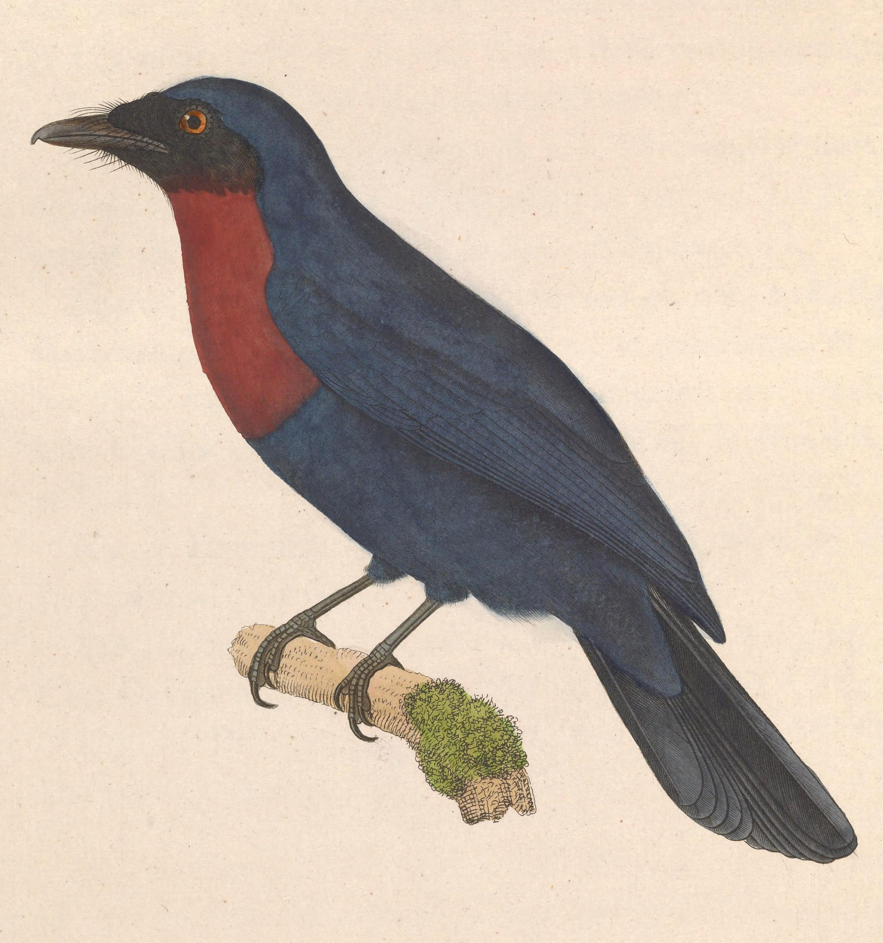 « Drymophila velata » = Philentoma velata (Maroon-breasted Philentoma) - adult male